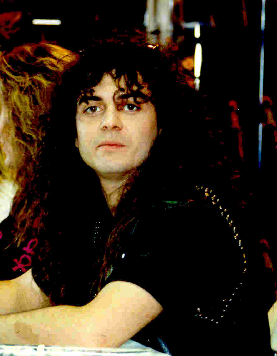 Timothy Patrick Kelly, guitarist for Slaughter, April 1990.